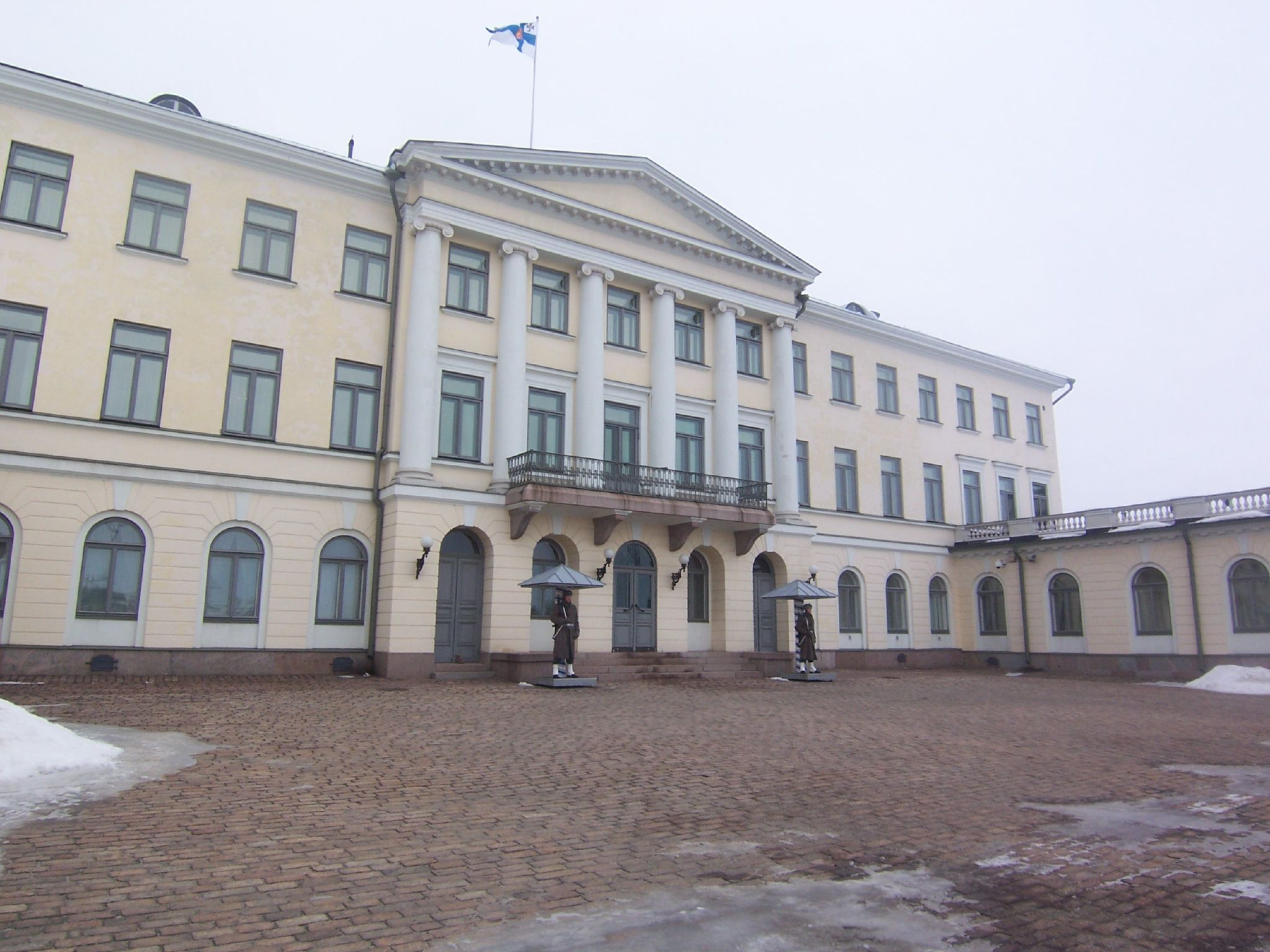 The Presidential Palace of Finland, in Helsinki.